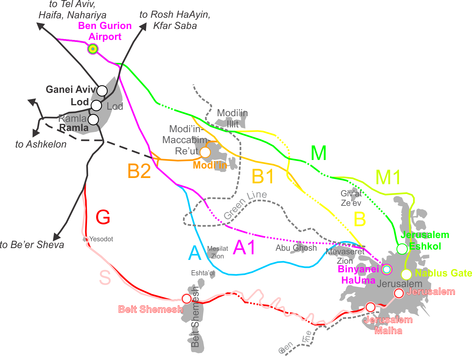 Map showing the plans for a Tel-Aviv--Jerusalem railway connection. Each alternative (S, G, A, A1, B, B1, B2, M, M1) is represented by a different color. Bold text and ciricles is for stations, while regular dark grey text is for city (12pt)/town (10pt)/village (8pt) names. Done with the help of a slew of other maps, not all of which had the same aspect ratio, etc. Therefore, try as I might, the map did not come out exactly to scale (probably) and has a few minor errors. The grey areas (built-up urban) are only shown for relevant localities, and are strictly demonstrative - they are generally not exact at all. Dotted lines denote tunnels. Bridges were not added, as I don't have the actual plans for these lines and the maps I have do not show bridges.